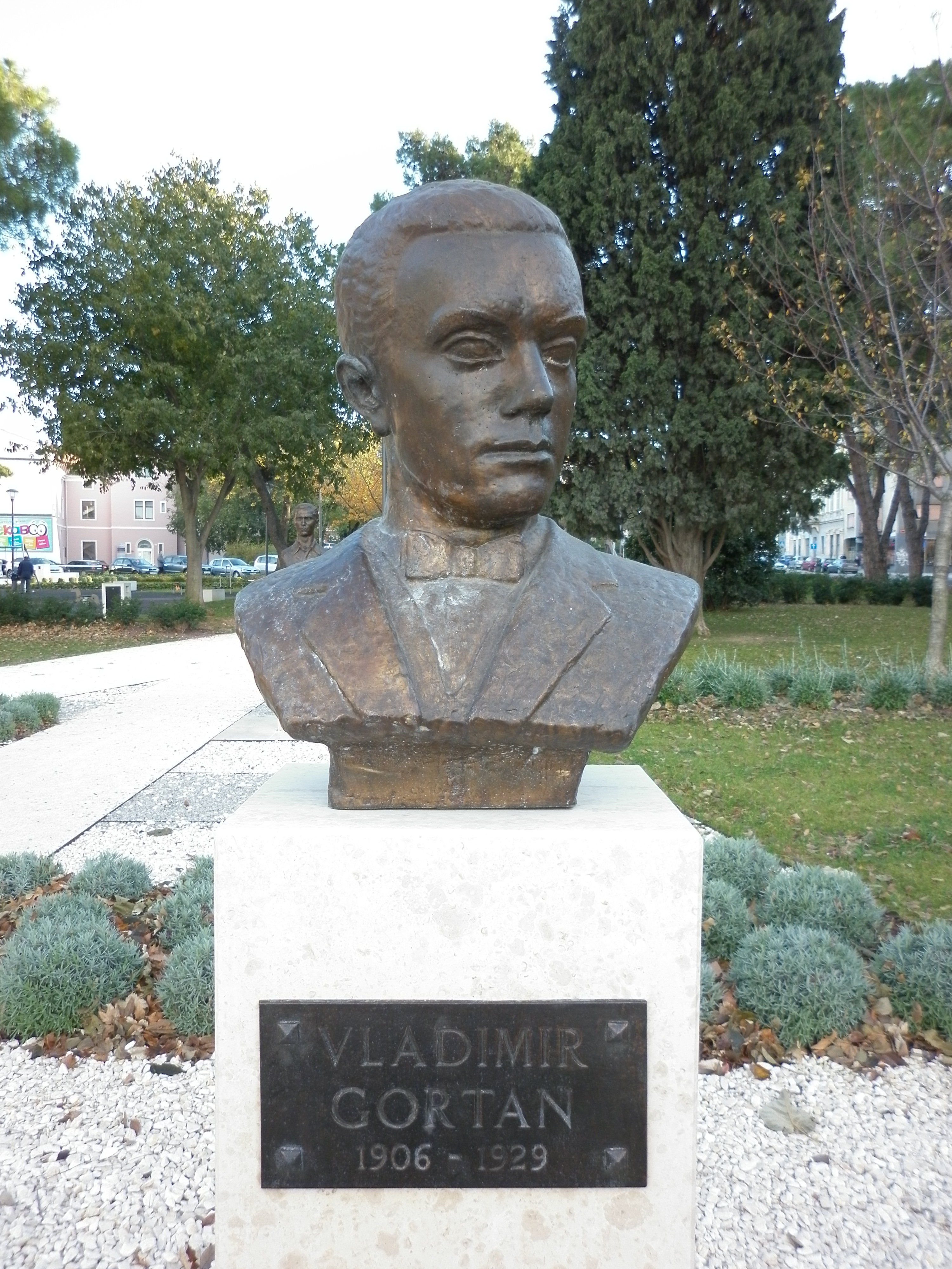 Bust of antifascist activist and fighter, Vladimir Gortan, Tito's Park, Pula.